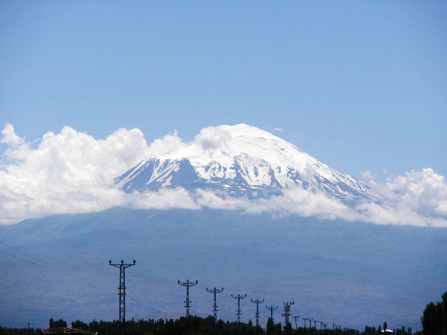 Agri Mountain from Igdir